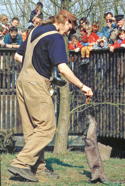 Otter feeding demonstration at the Otter Centre, Hankensbüttel, Germany